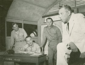 Ezio Pinza as Emile de Becque in the 1949 original production of South Pacific.